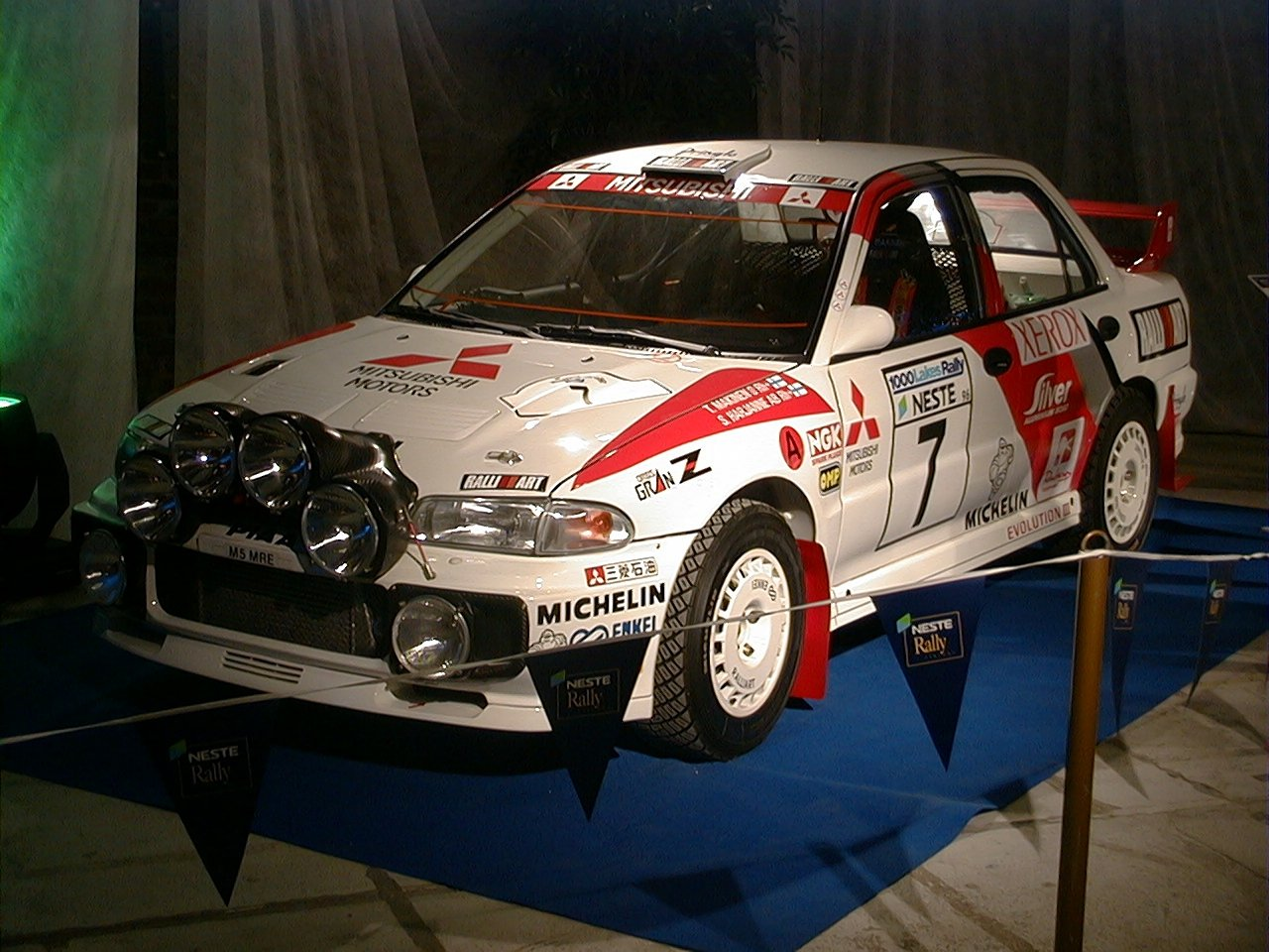 Tommi Mäkinen's 1996 Rally Finland winning Mitsubishi Lancer Evolution III.